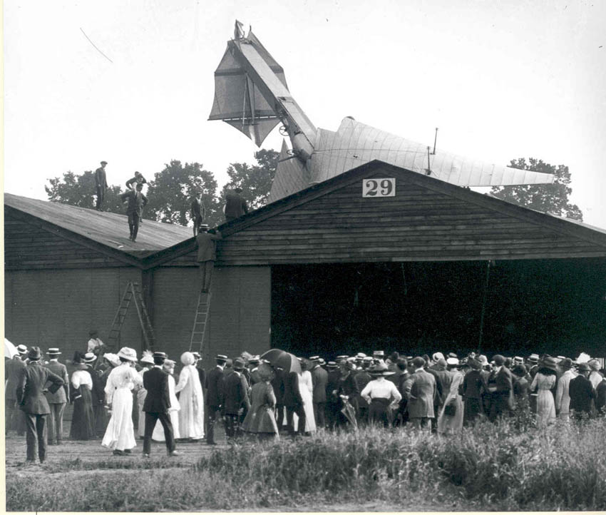 Hubert Latham crashes his plane at Brooklands in 1911